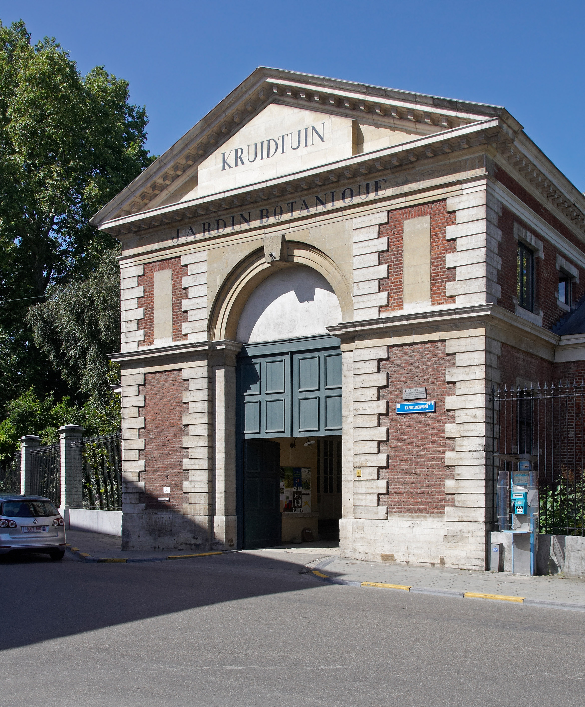 Building, part of the Kruidtuin/Jardin Botanique, Leuven, Belgium